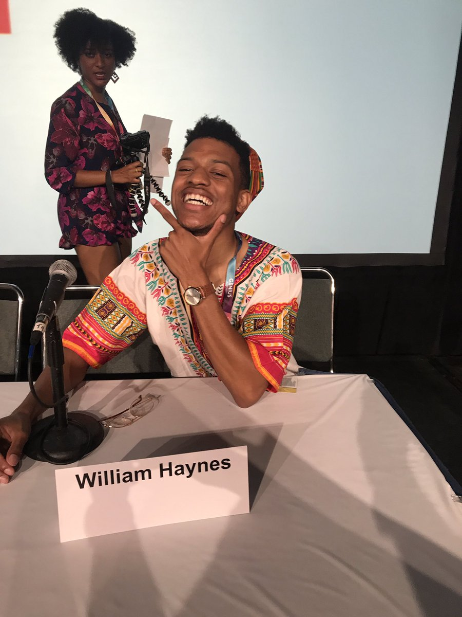 William Haynes at Vidcon 2017 on #YouTubeBlack Panel